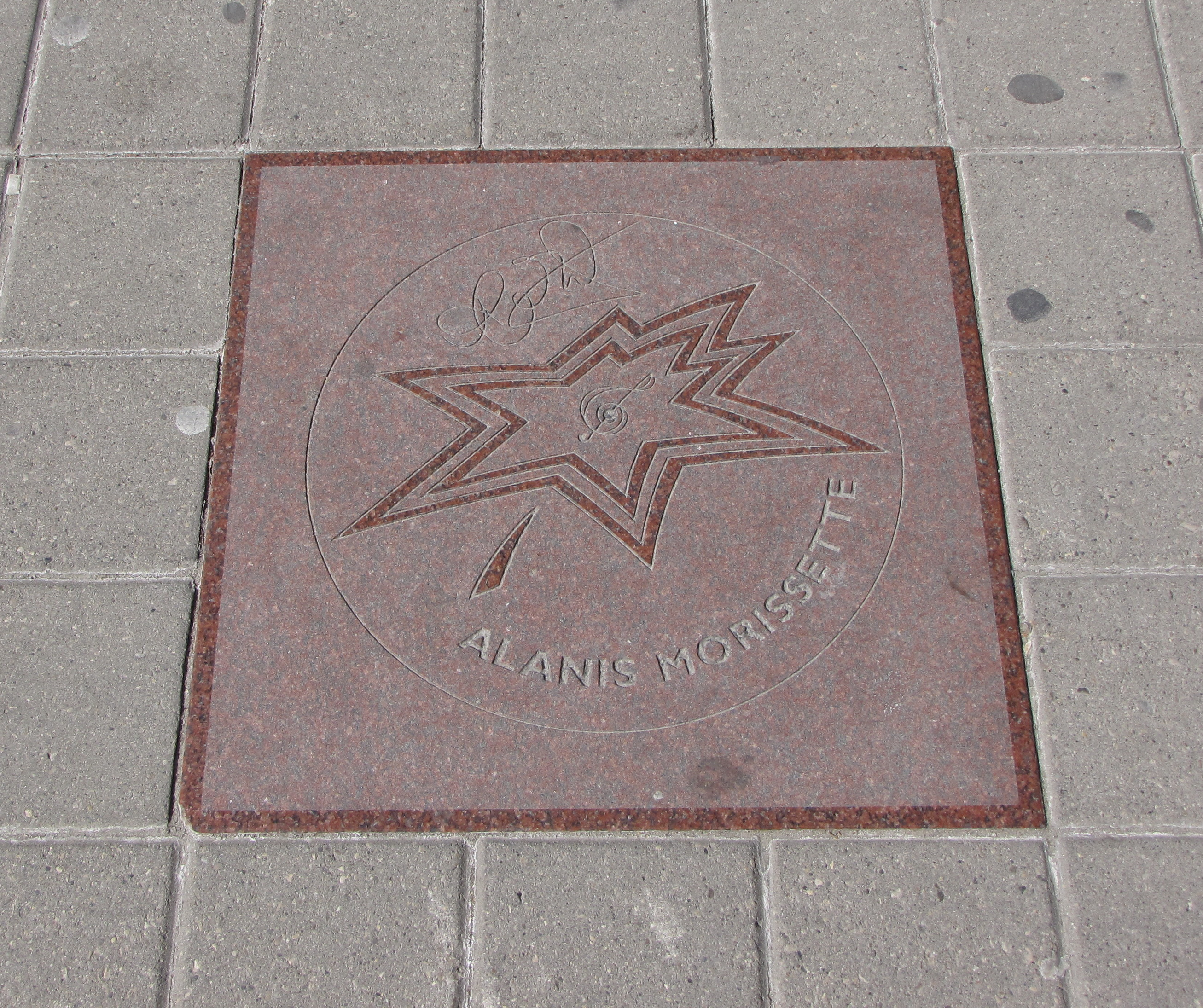 Alanis Morissette's star on Canada's Walk of Fame